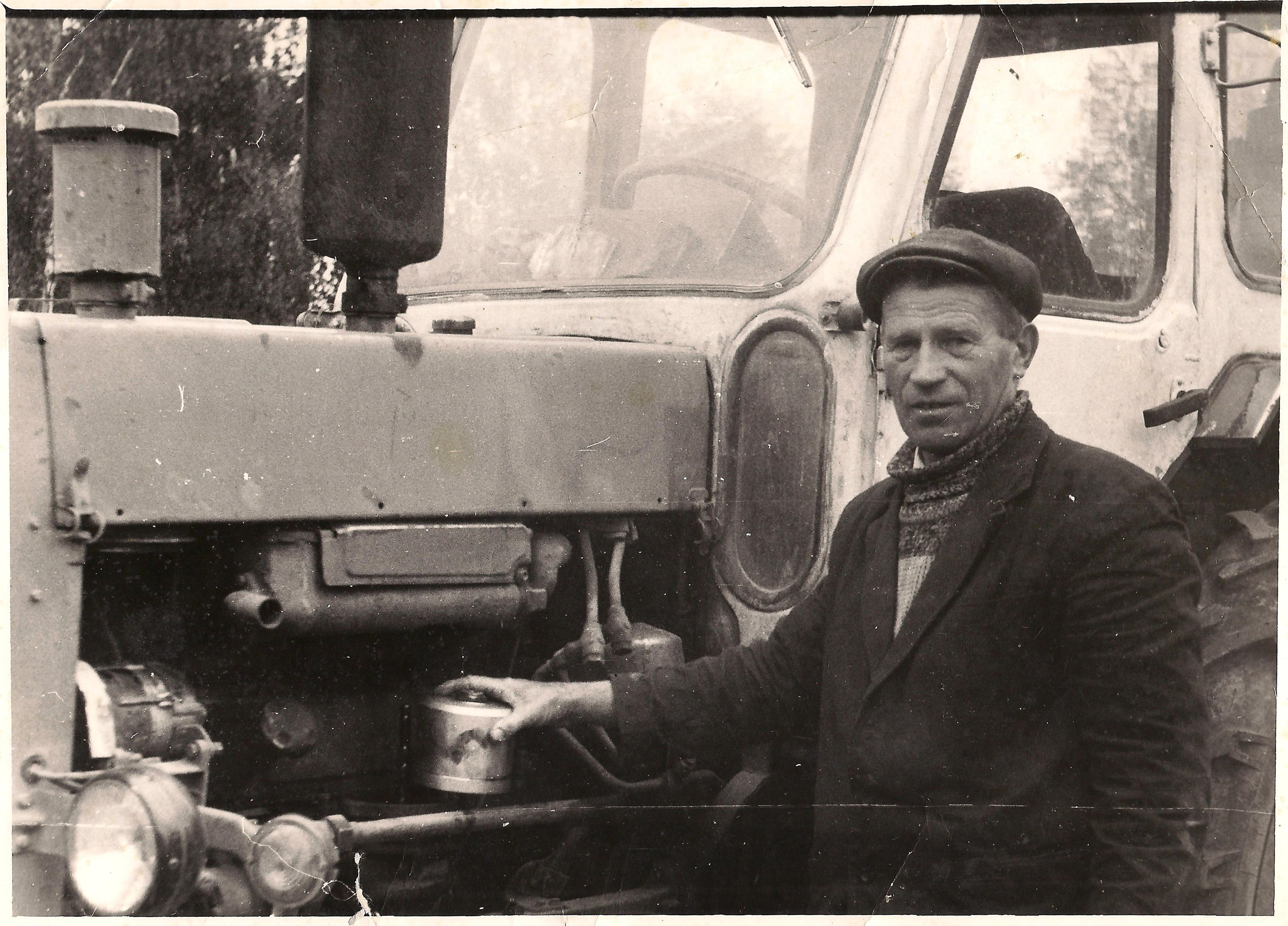 Передовий тракторист Вільховий Юхим (1975 р.)